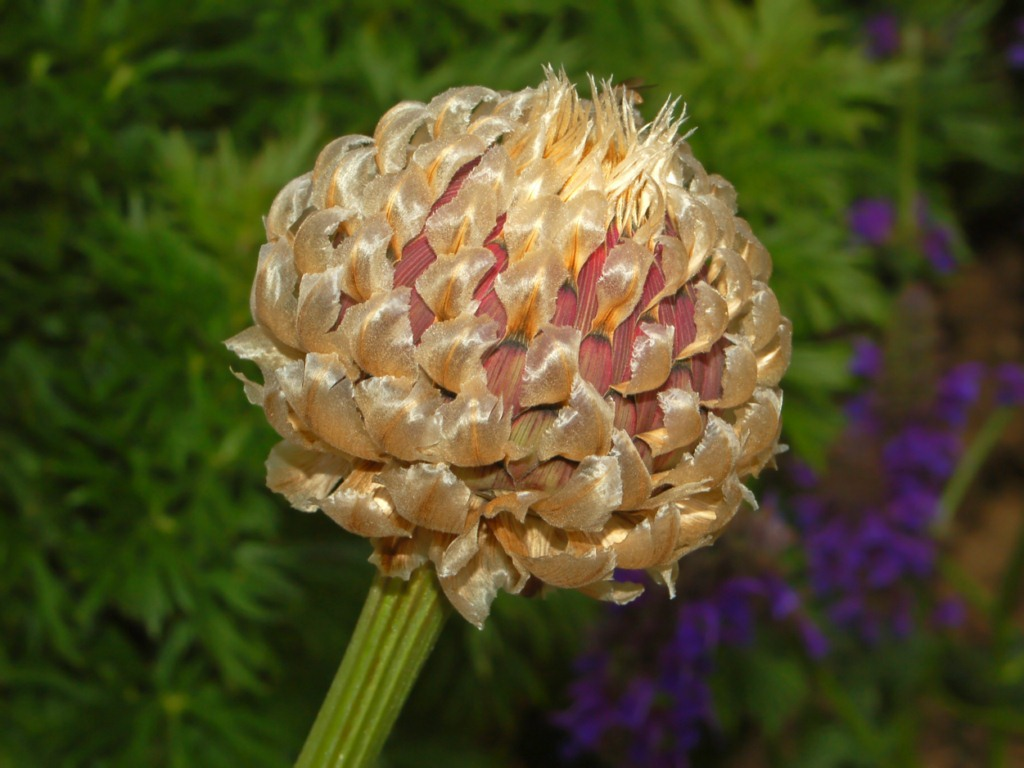 Rhaponticum heleniifolium subsp. heleniifolium - Col du Lautaret, France